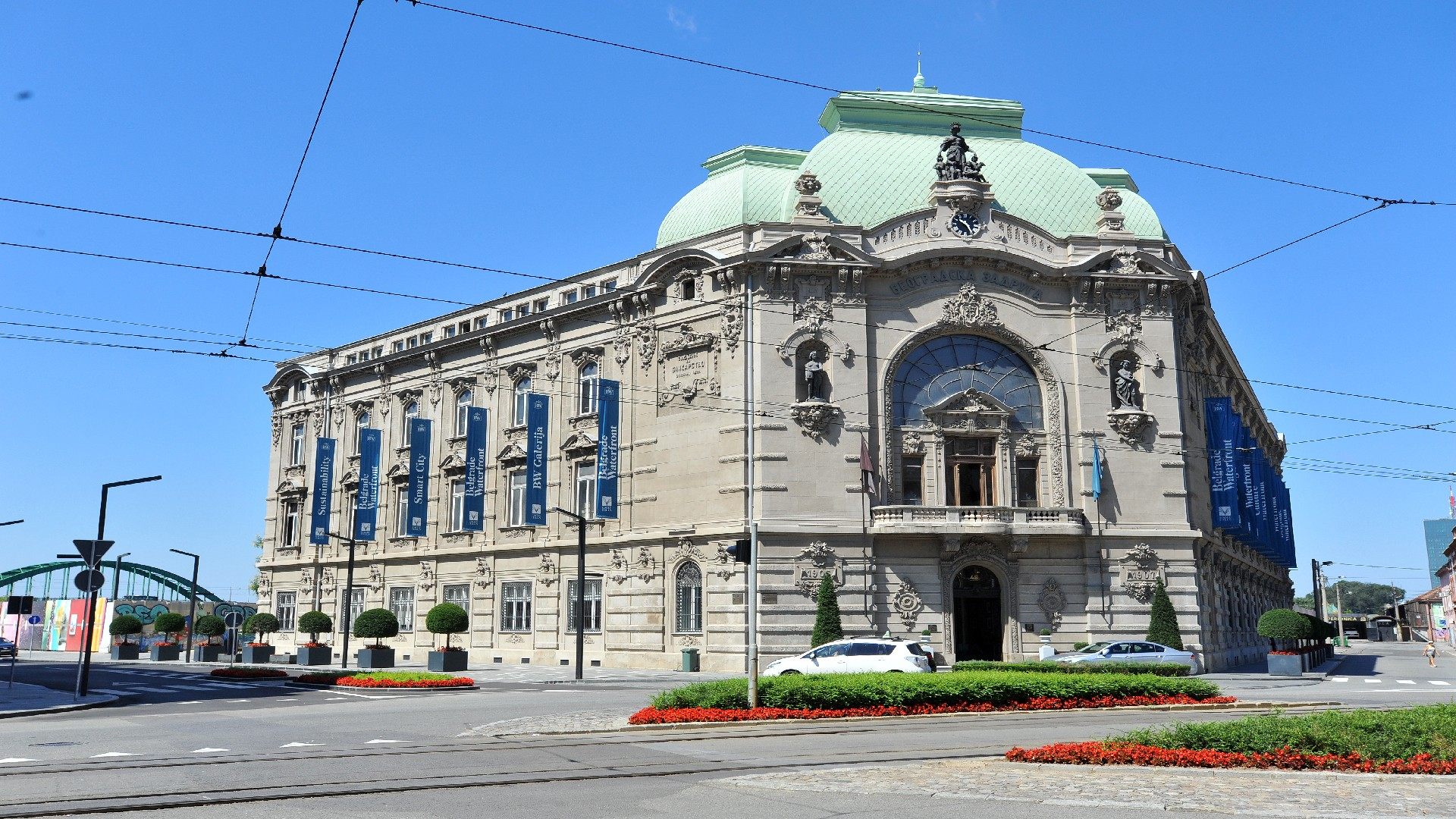 Front view of Belgrade Cooperative building in Belgrade